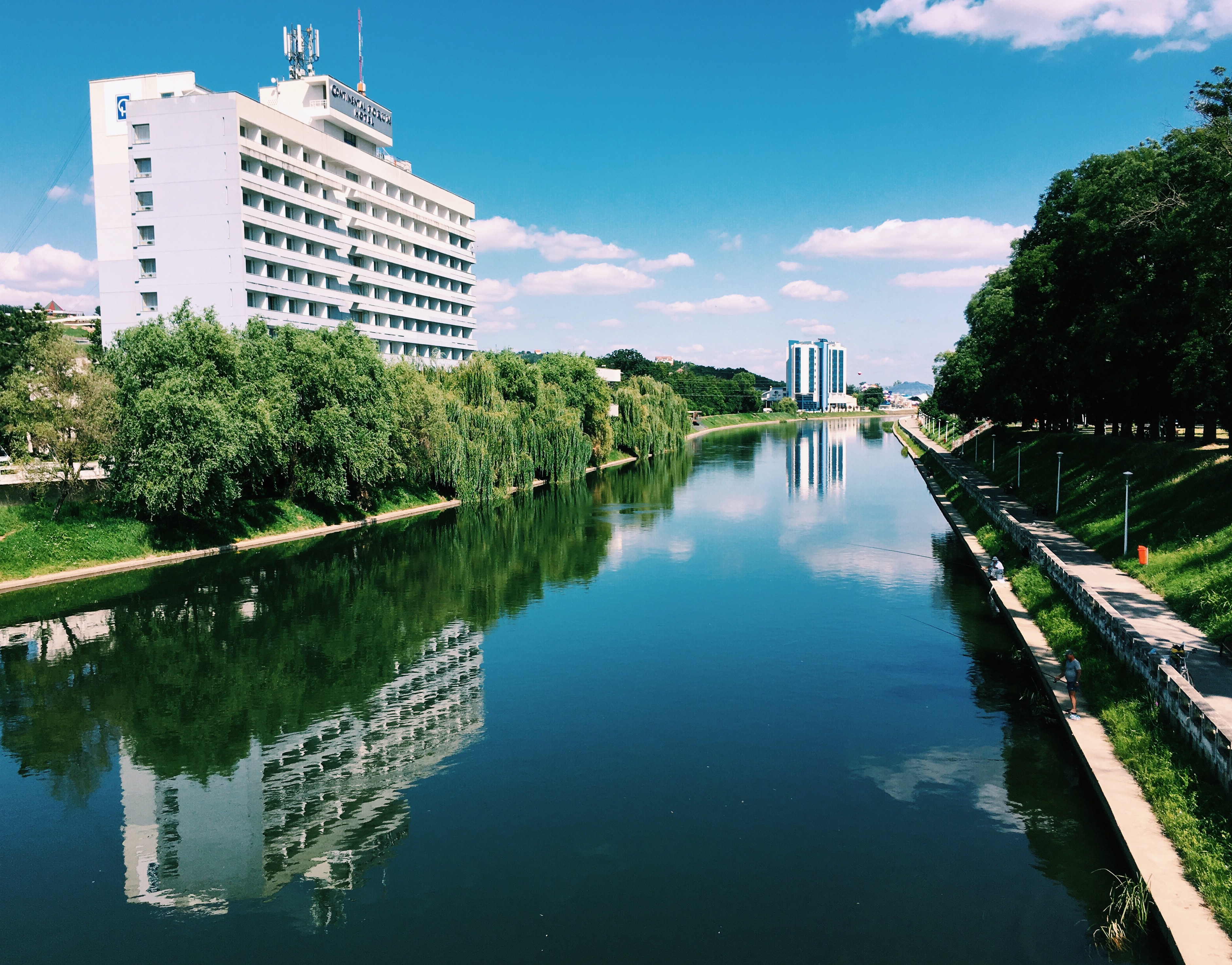 Crișul Repede river, with Continental Hotel, DobleTree by Hilton Hotel and Olympic Swimming Pool in the background